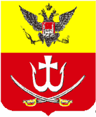 Coat of arms Vinnytsia Ukraine (1796)